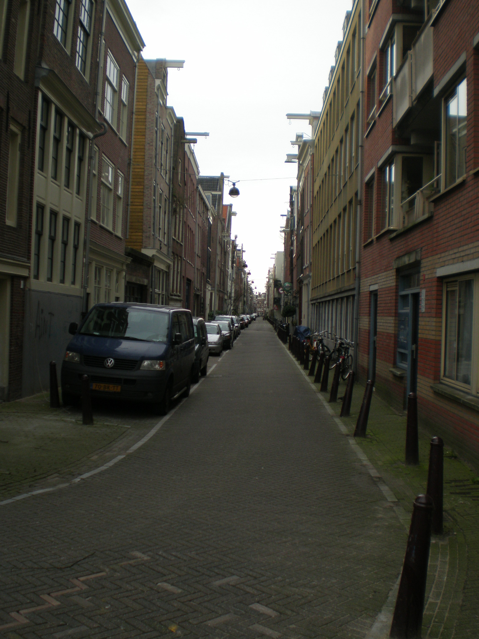 Egelantiersstraat (street) in the Jordaan neighbourhood in the centre of Amsterdam. View from Prinsengracht (canal), looking to the west.